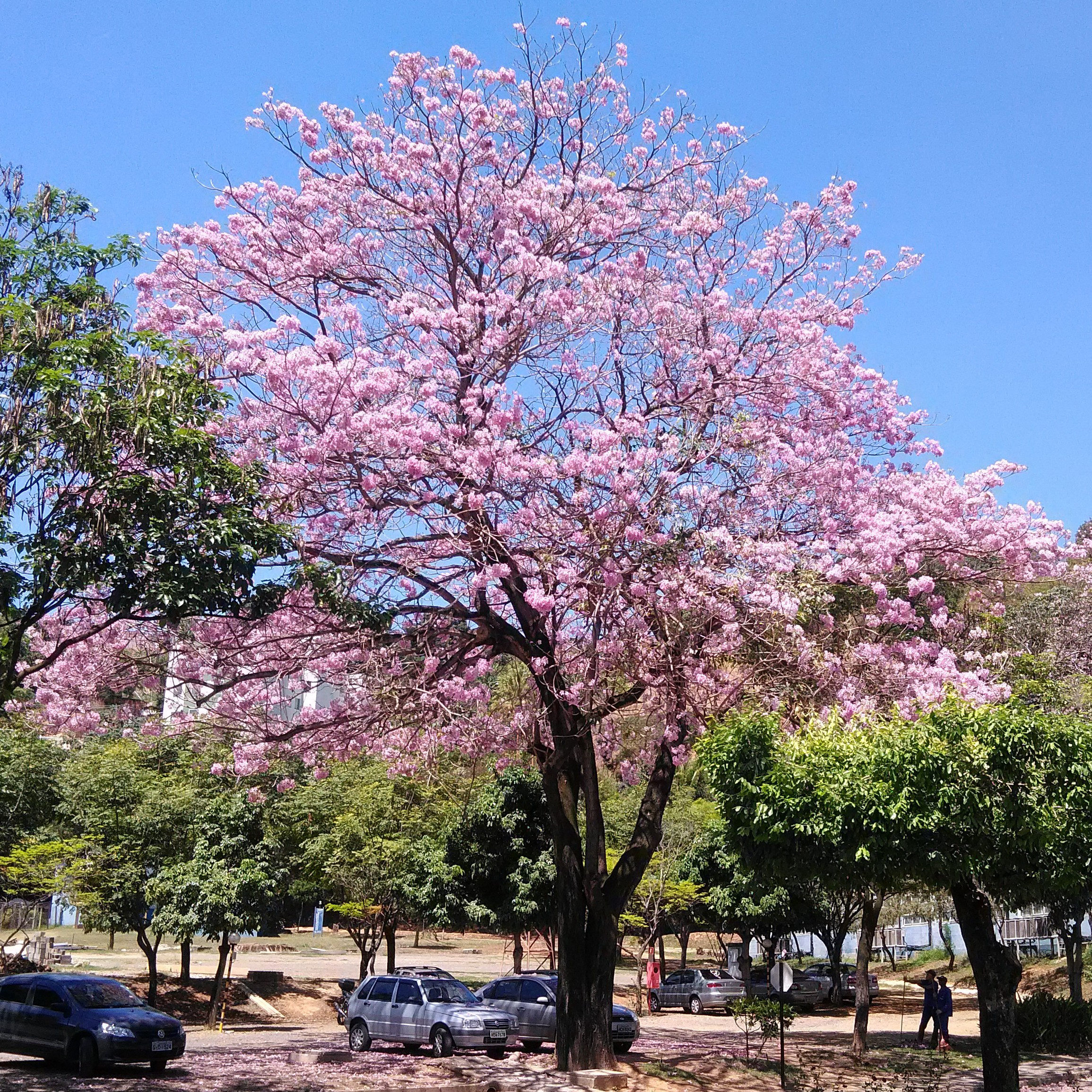 Flowers of ipê-roxo (Handroanthus impetiginosus) in the campus of the Centro Universitário do Leste de Minas Gerais (Unileste), in Coronel Fabriciano, Minas Gerais, Brazil.